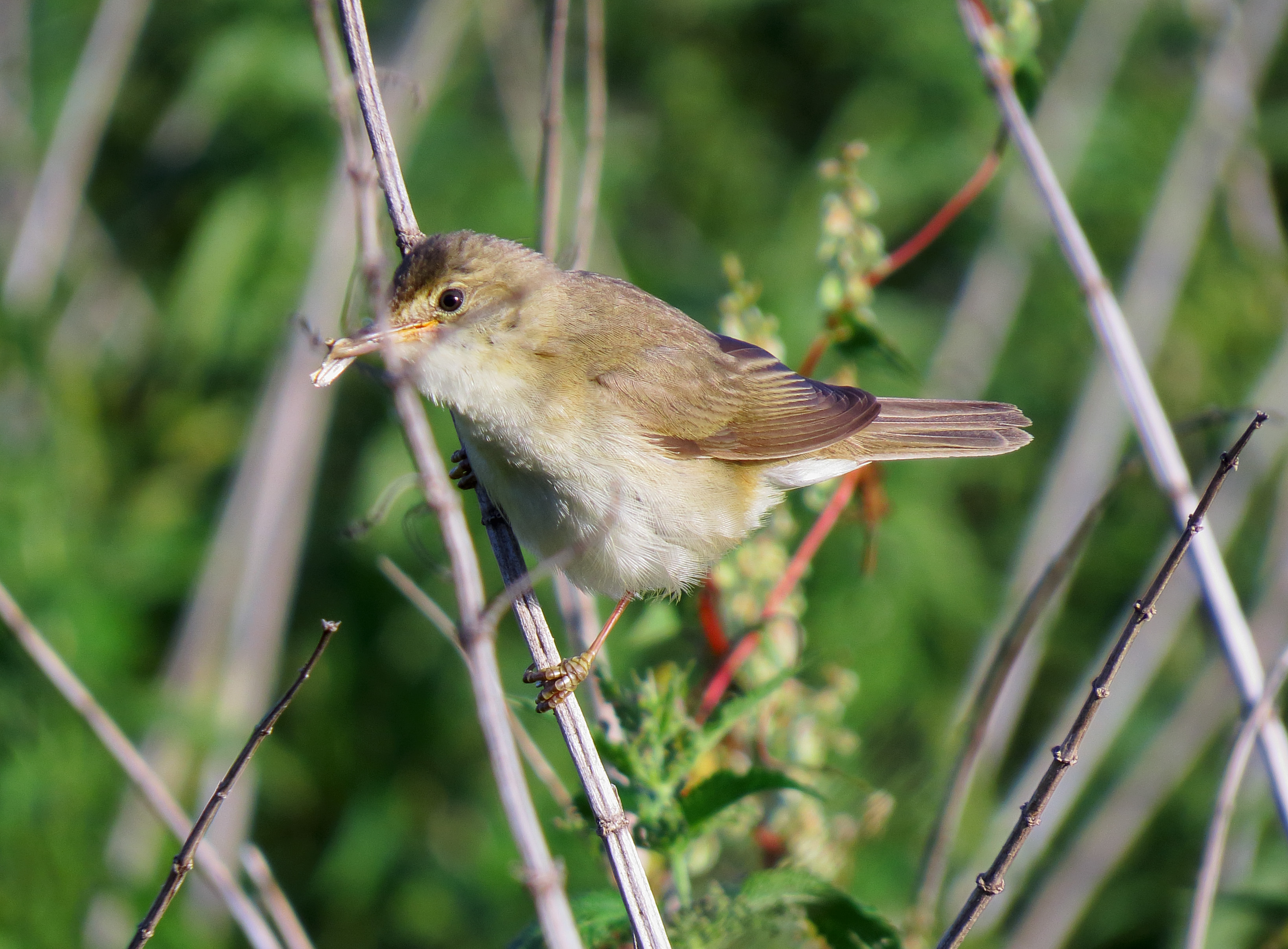 Acrocephalus palustris in the floodplain of Irpin river, near Romanivka (Irpin city), Kiev oblast, Ukraine